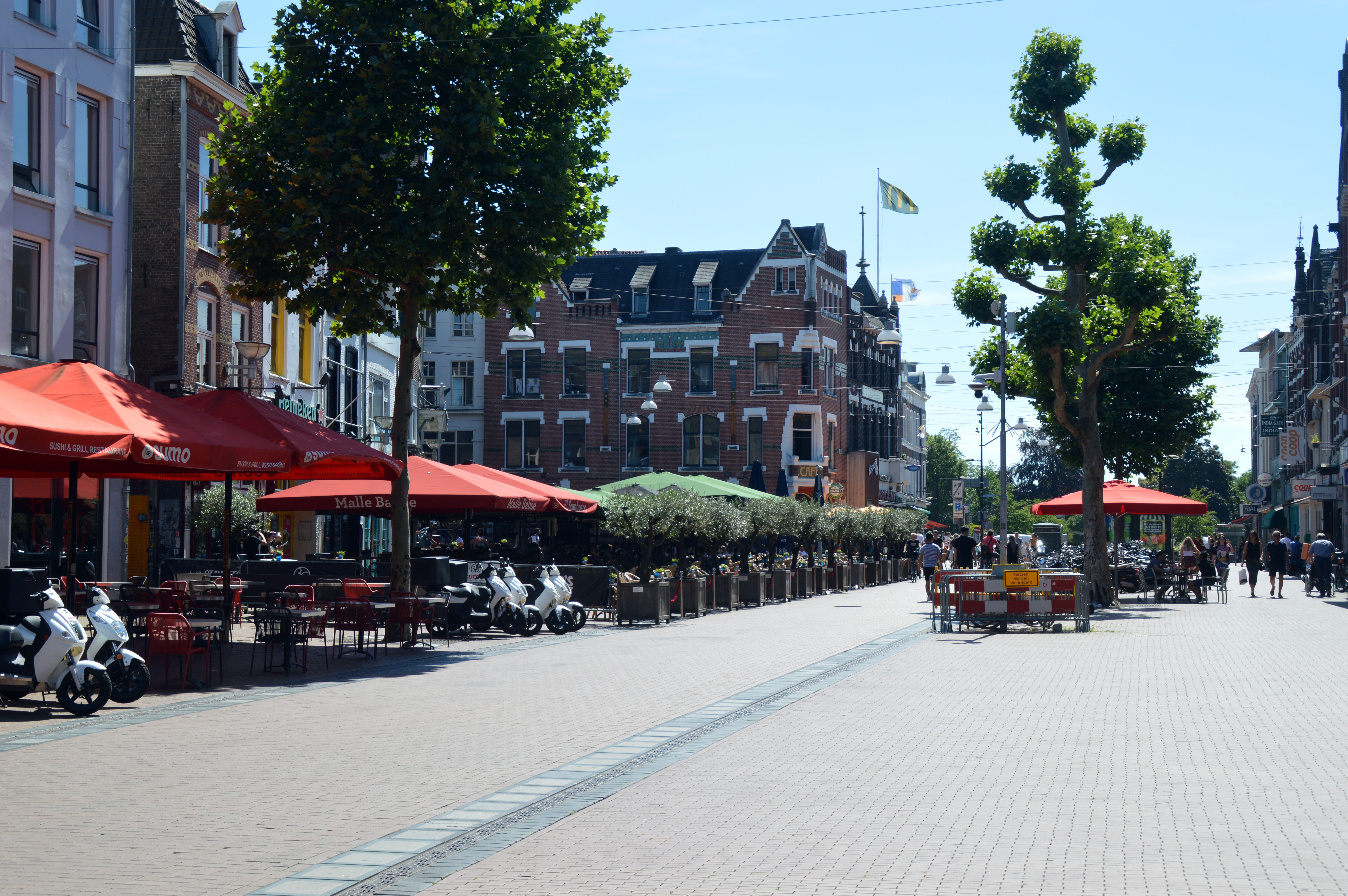 Molenstraat with number 95 Building from 1902 with style features of the Neo-Renaissance, Art Nouveau and Berlagianism. Architect P.G. Buskens Nijmegen